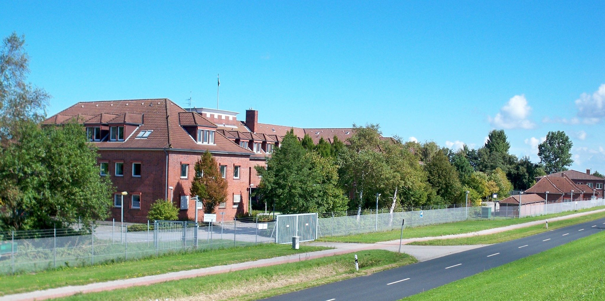 Military area Marineanlage Bordum